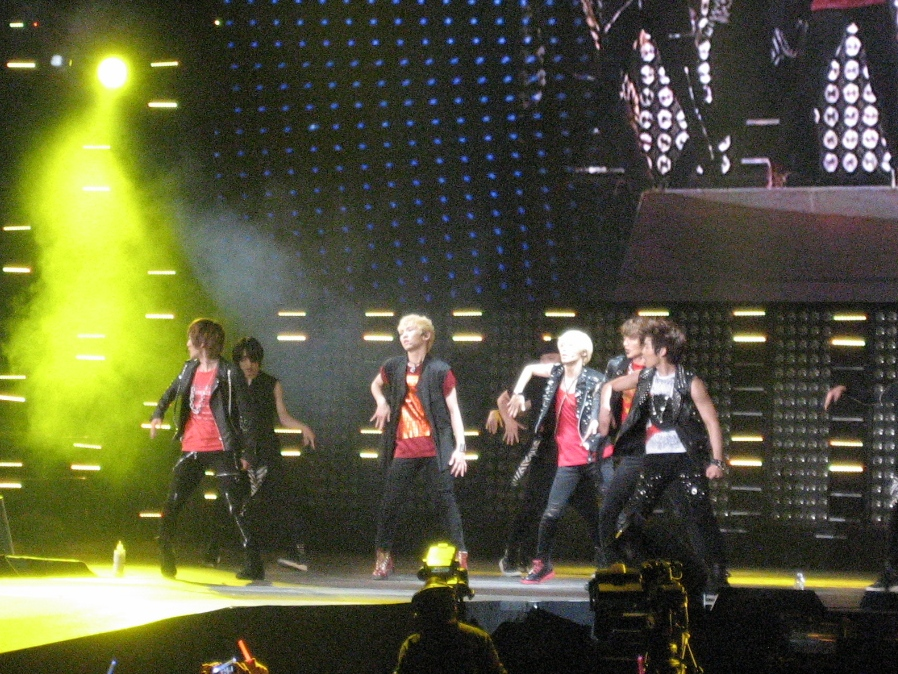 SHInee performs "Ring Ding Dong" at the SMTOWN Live World Tour in NY on Madison Square Garden in october 23, 2011.